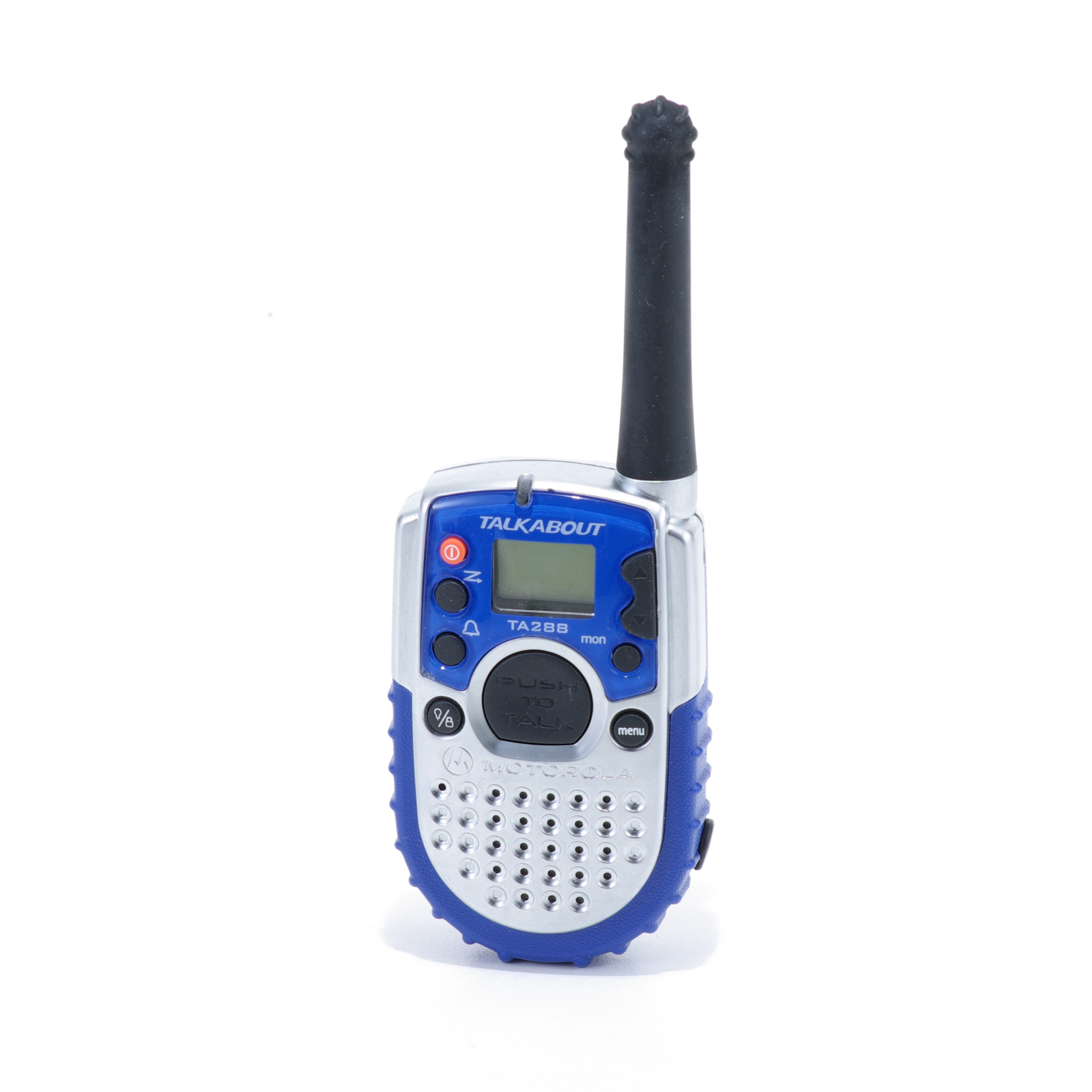 Motorola TA288 PMR446 licence free radio.